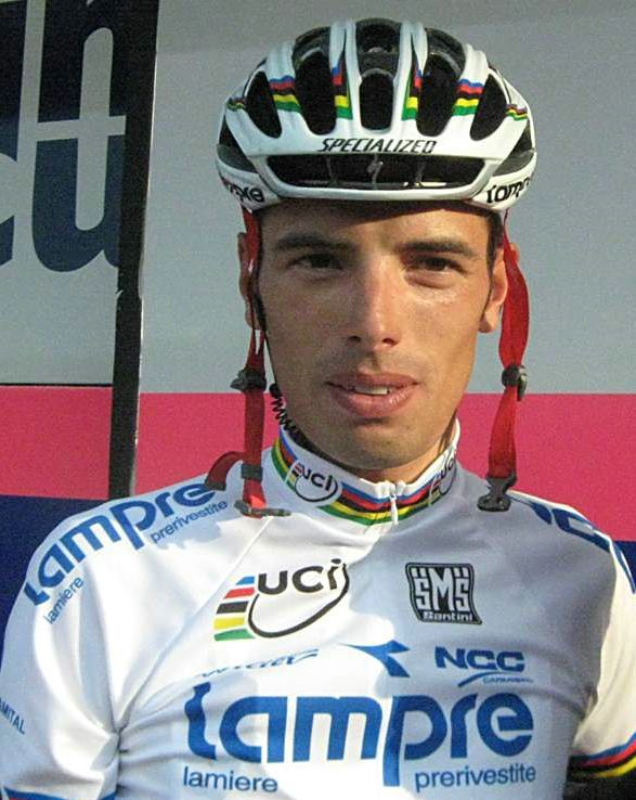 Alessandro Ballan